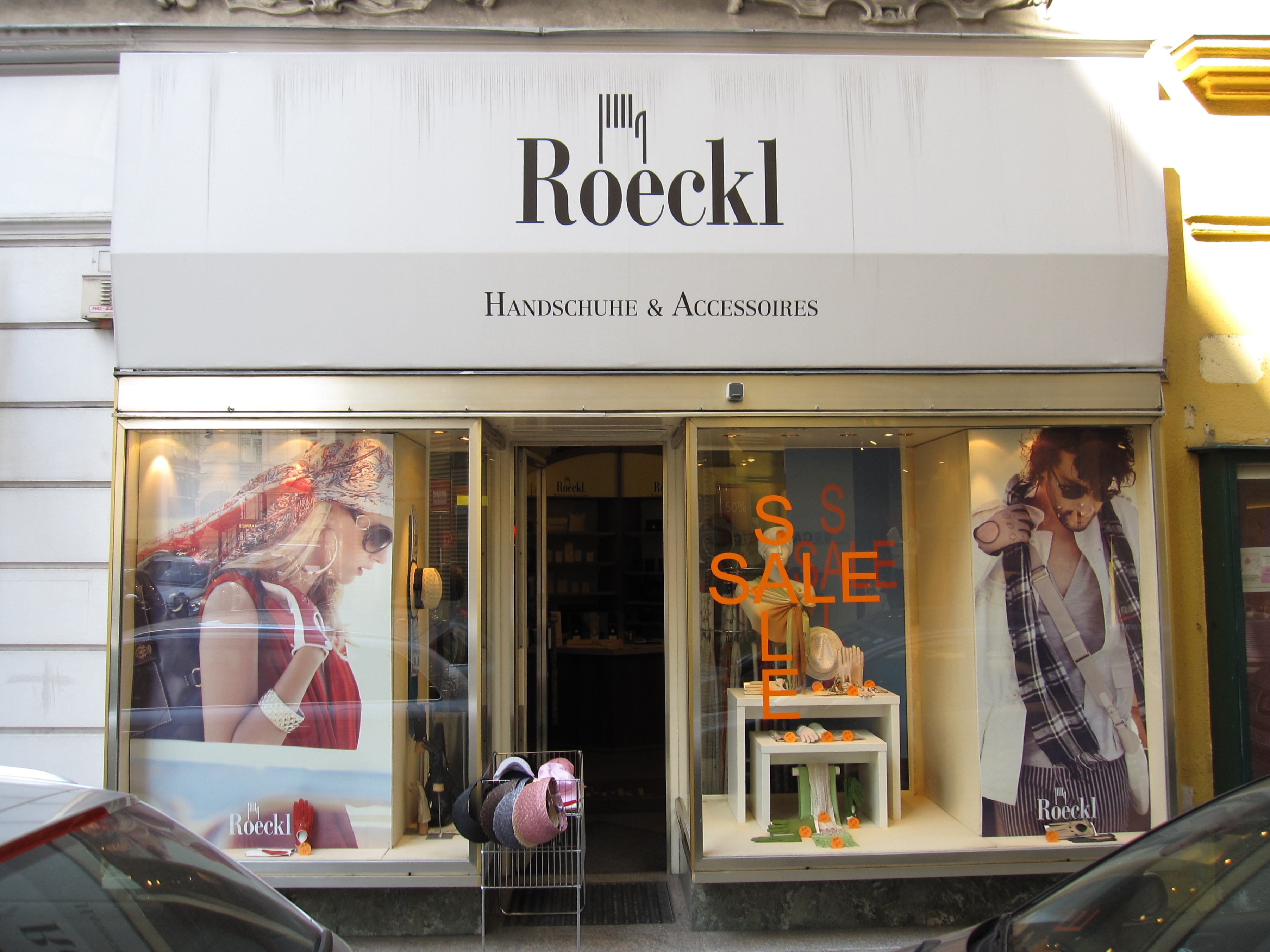 Glove store Roeckl at the Freisingergasse in Vienna's I. district.